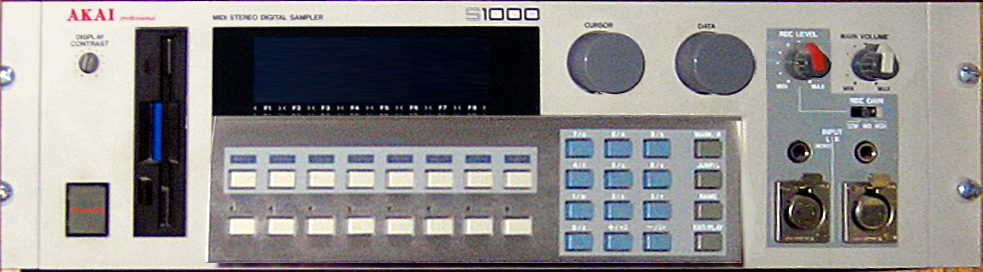 Akai S1000 MIDI Stereo Digital Sampler